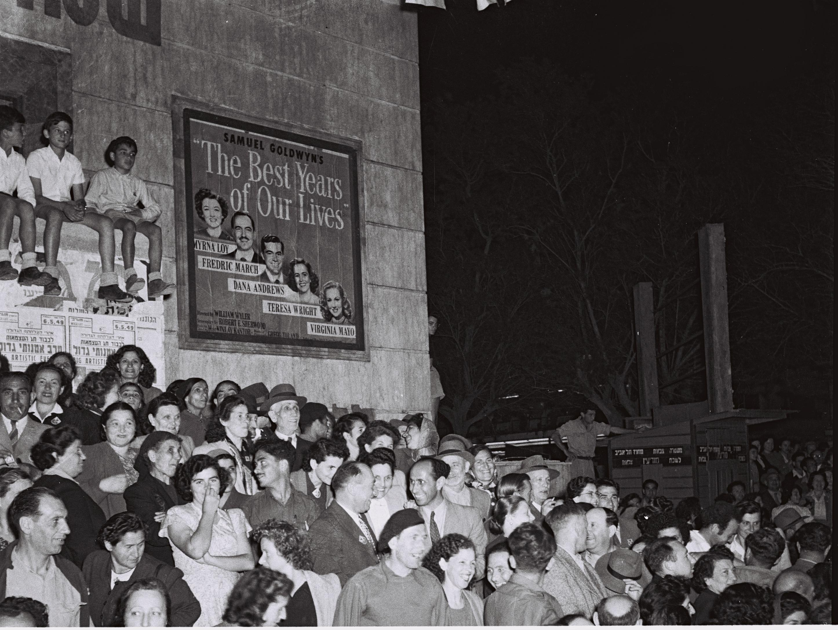 People celebrate outside the Mograbi on Independence Day, 1949. The jovial crowd feels attune with the latest film, “The Best Days of Our Life.”